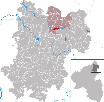 This map shows the area of the Gemeinde (municipality) Hahn bei Marienberg in the Kreis (district) Westerwaldkreis, Rhineland-Palatinate, Germany.